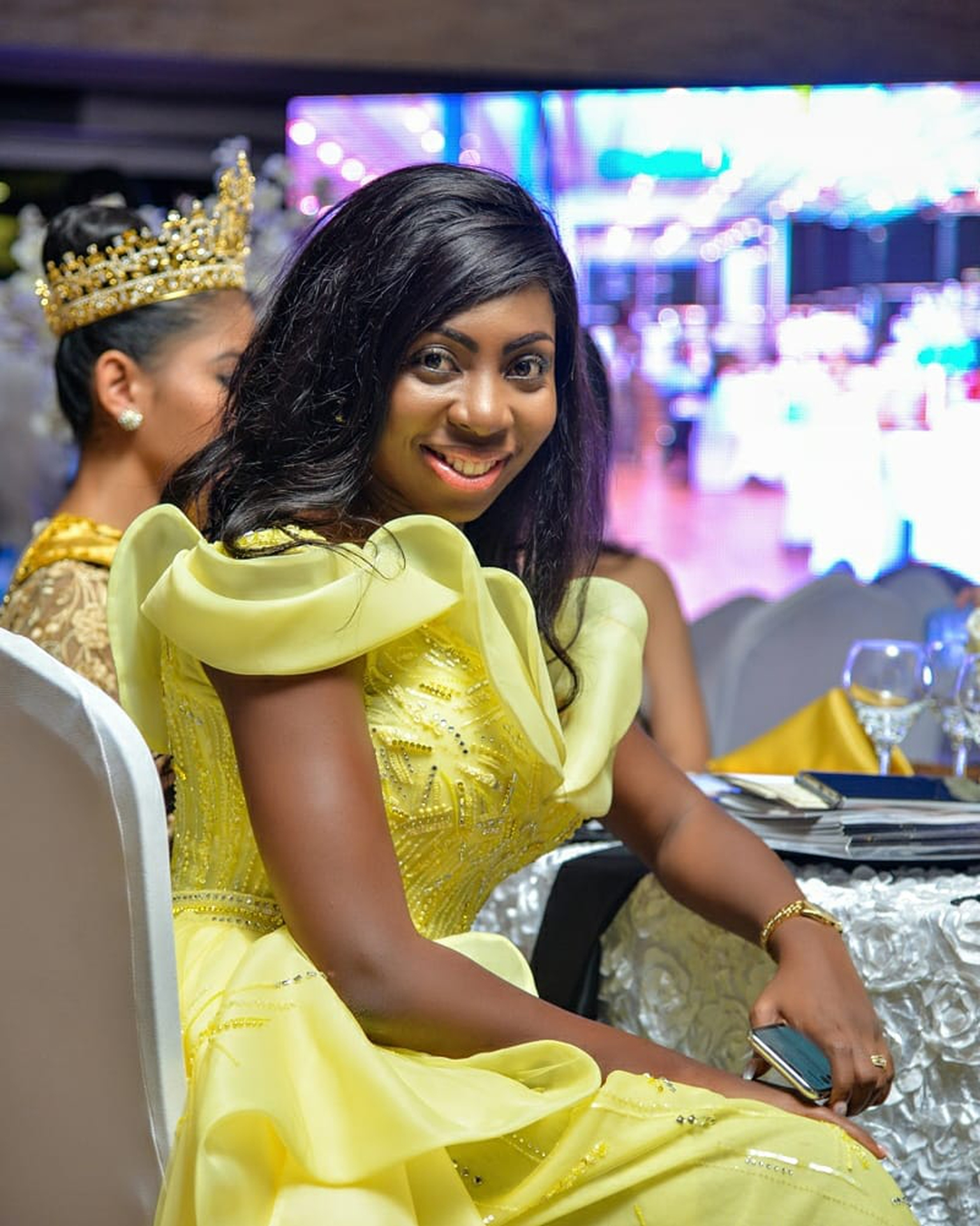 Picture of Ibife Alufohai at an event